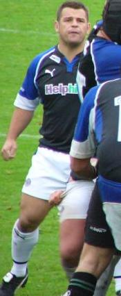 Lee Mears